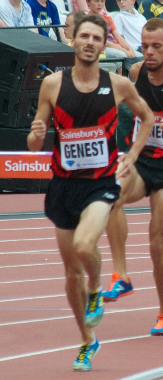 Alex Genest during the IAAF Diamond League event in London.